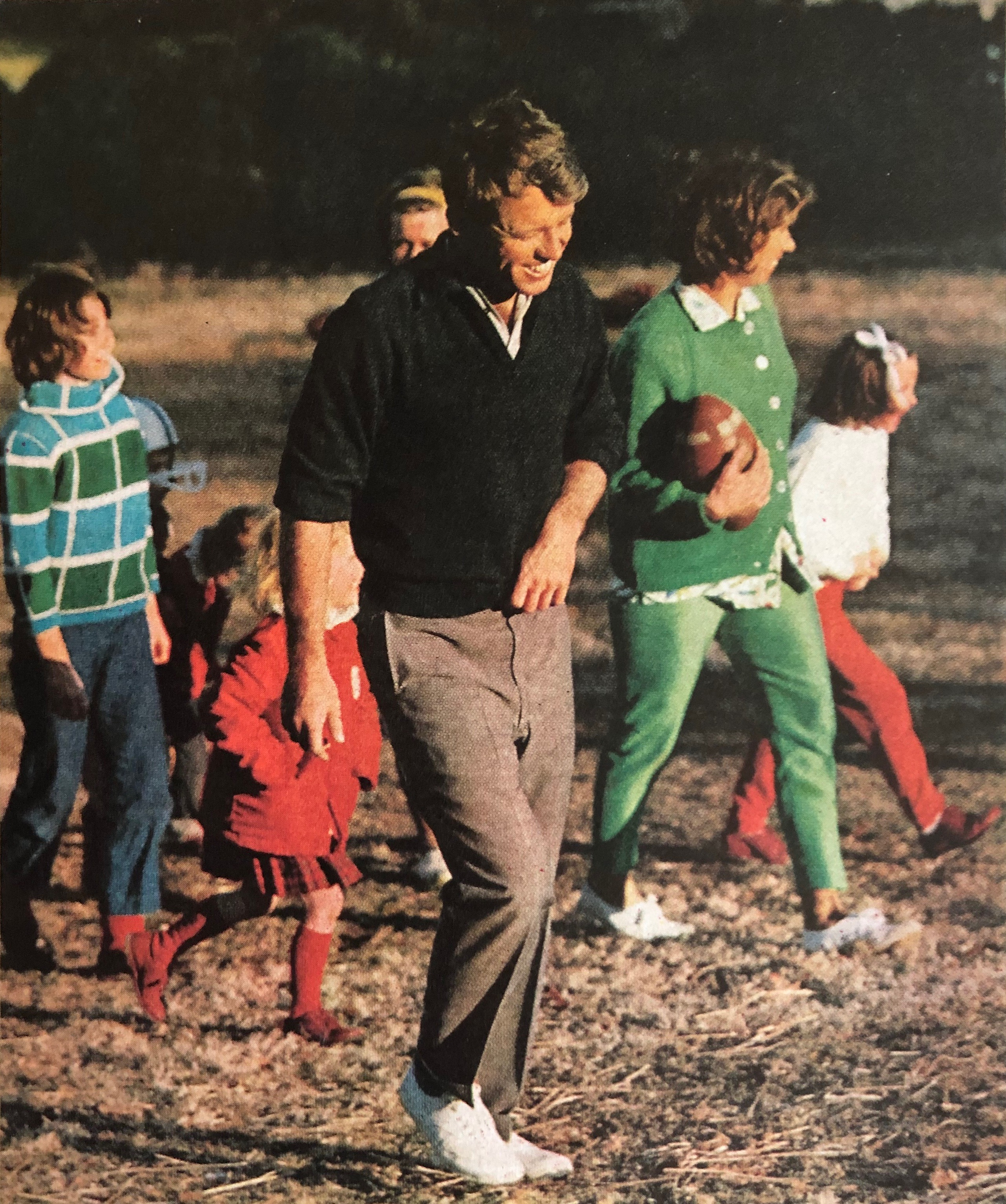 Robert F. Kennedy